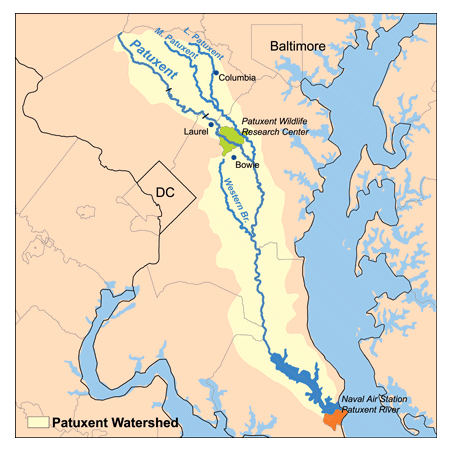 This is a map of the Patuxent River Watershed I made using USGS and Census Bureau data.